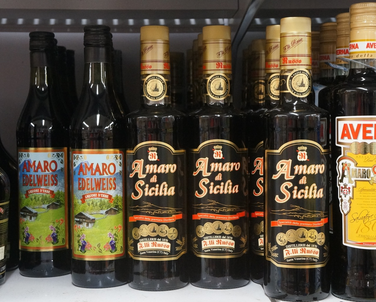 bottles of Amaro Edelweiss and Amaro di Sicilia on retail shelves